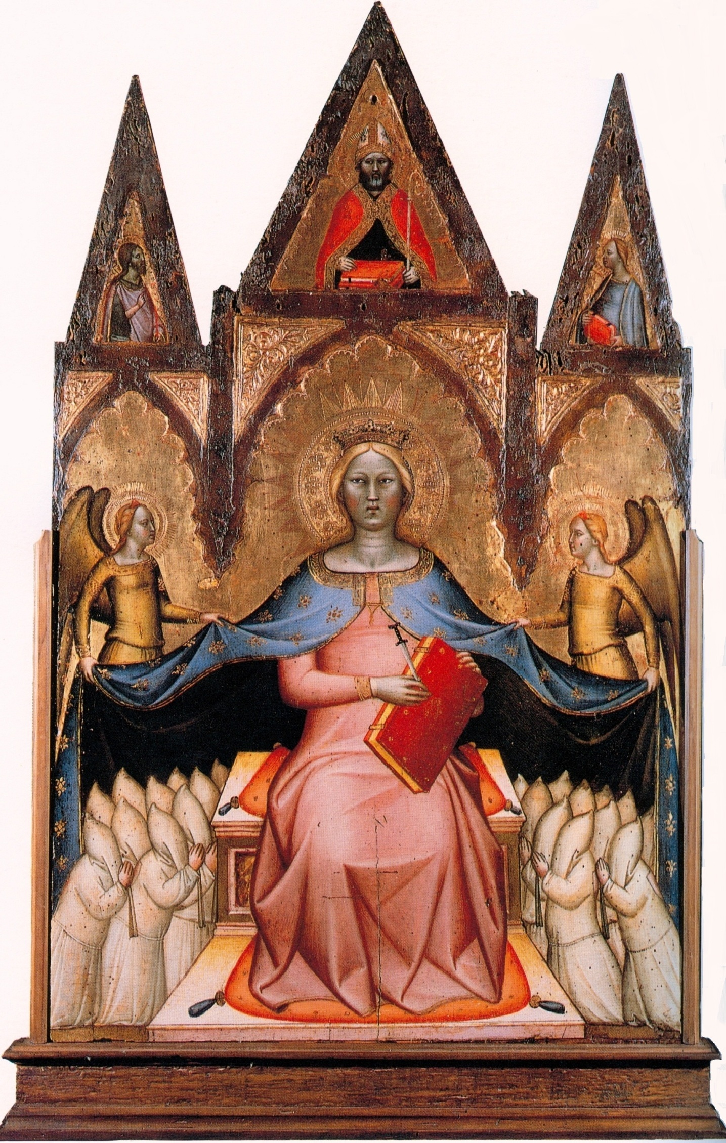 Francesco di Neri da Volterra. Santa Lucia protegge la Confraternita dei Disciplinati. Bandinella. Cassa di Risparmio, Pisa.